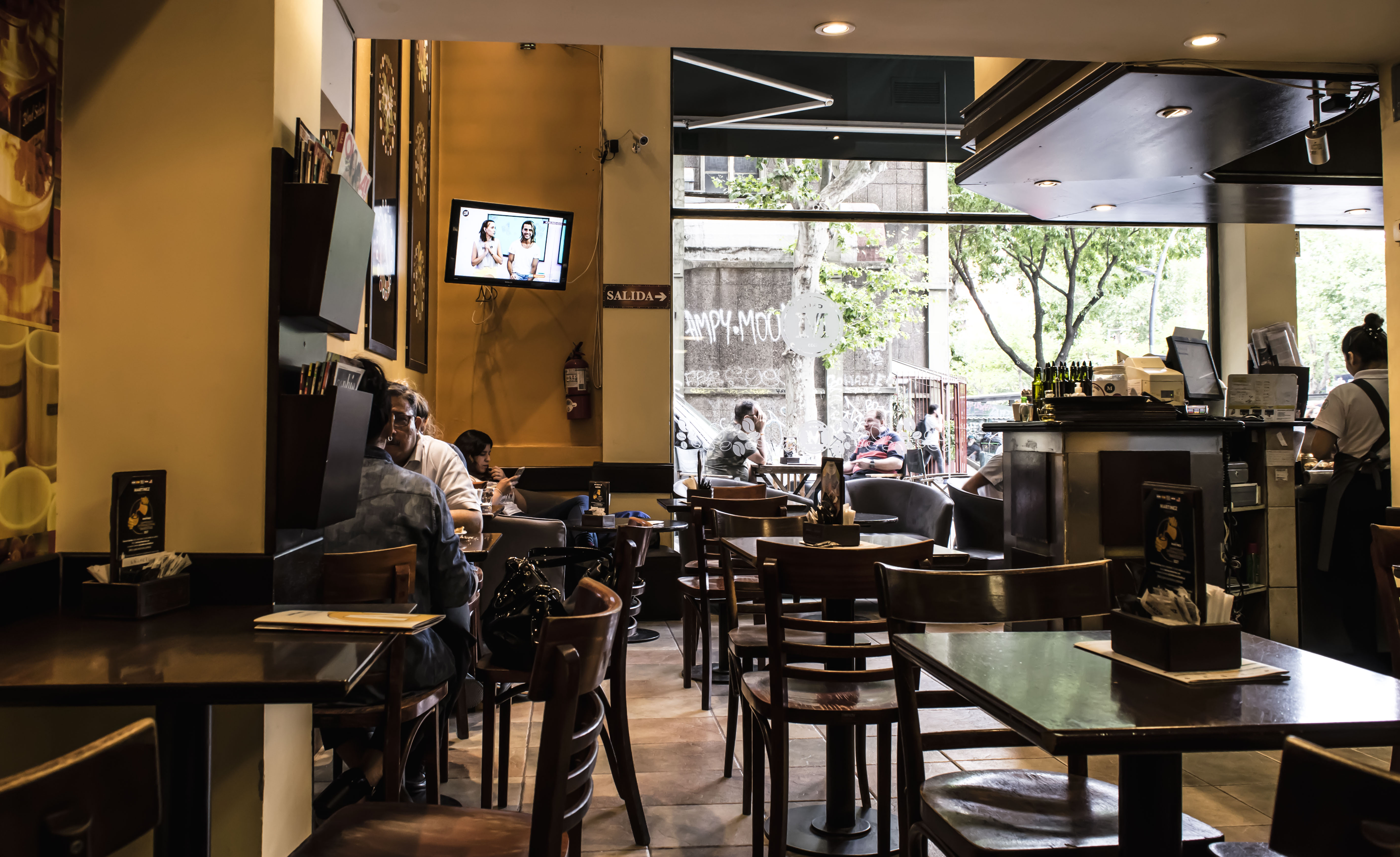 Coffee shop Martinez, corner between Santa Fe and Uriarte, Palermo, Buenos Aires, Argentina